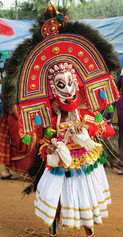 Pootham, a popular ritual form of worship.